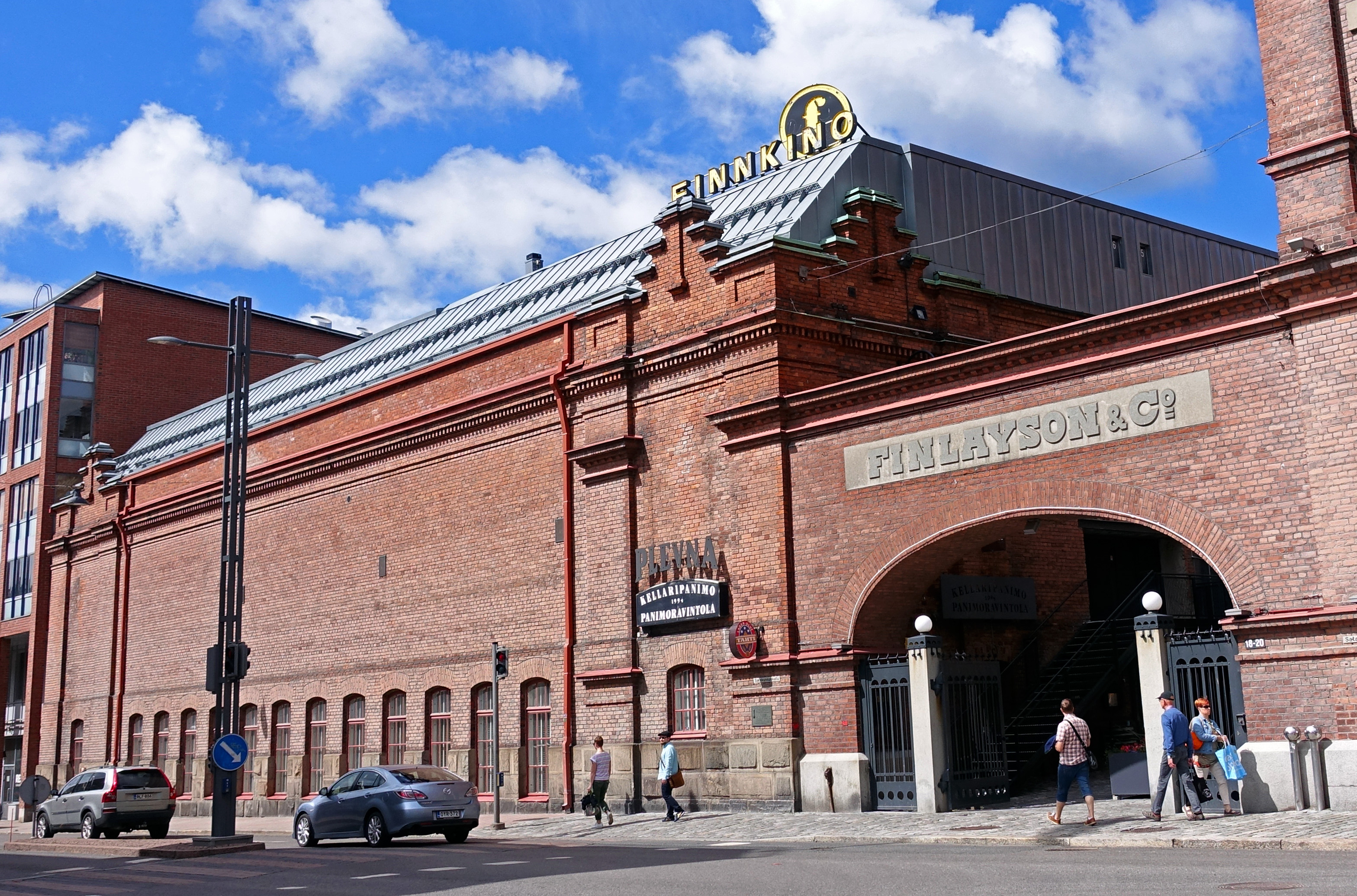 Plevna from the street Satakunnankatu, Tampere.